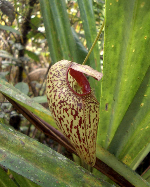 Nepenthes aristolochioides from Jambi, Sumatra (2,100 m asl).